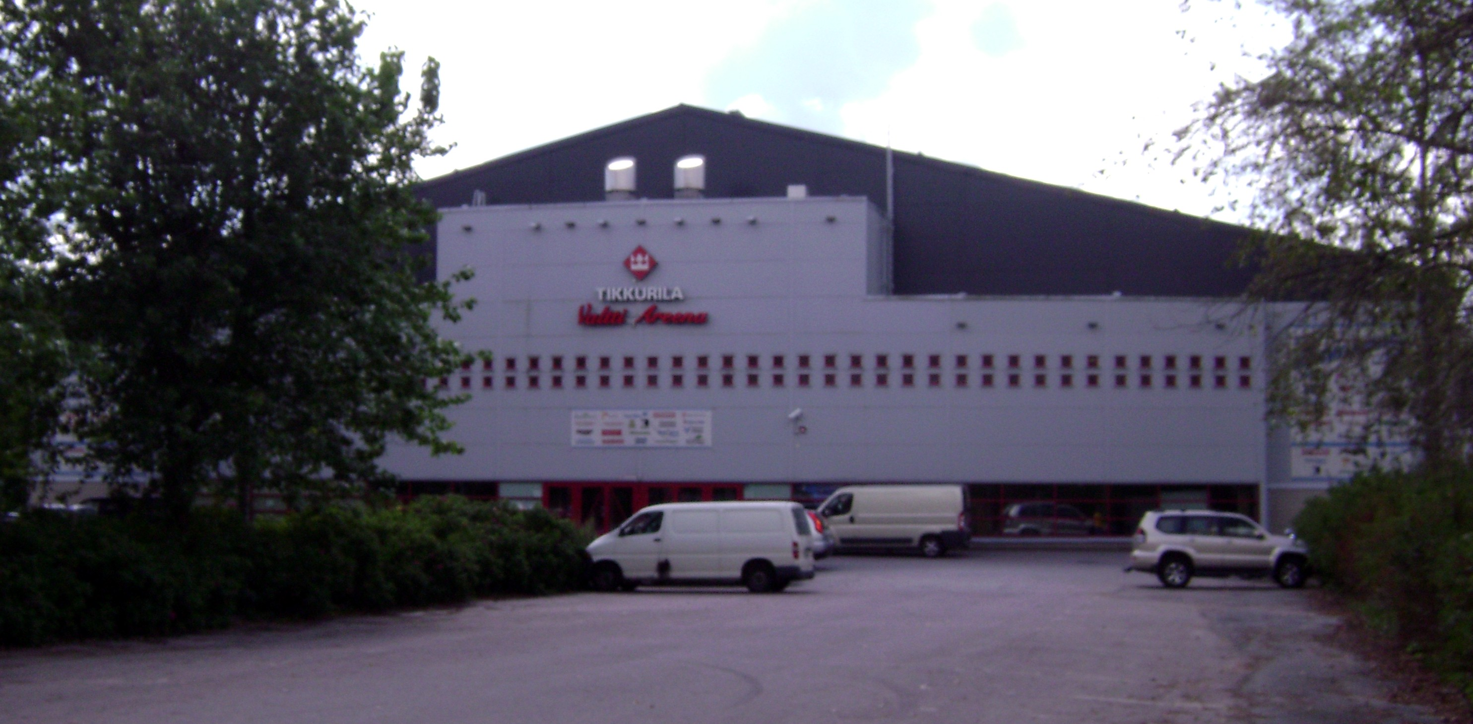 Valtti Areena in Tikkurila, Vantaa